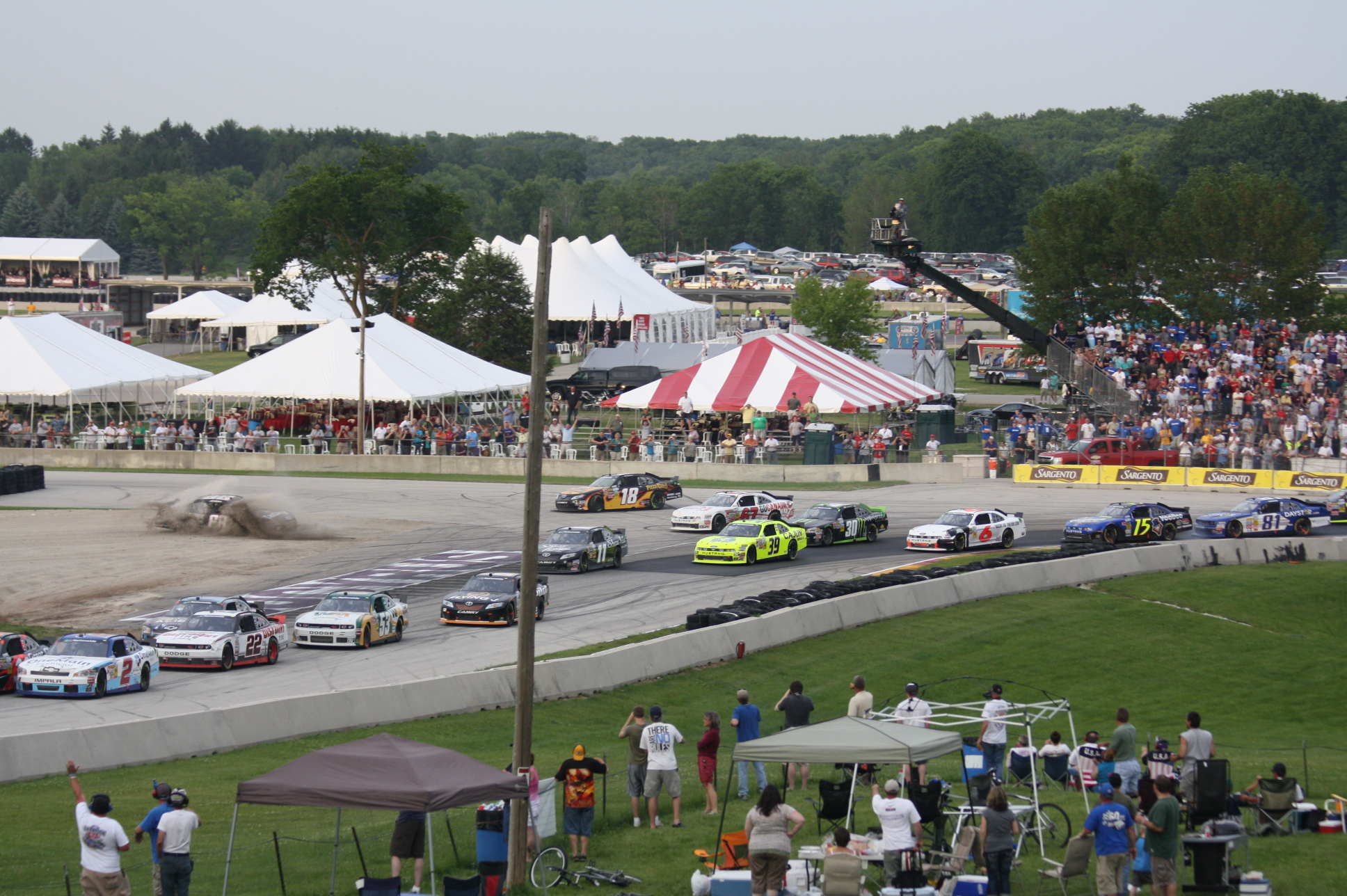 Looking northeast at Turn 5 of the field racing the final lap through the section at Road America during the 2011 Bucyros 200 Nationwide Series race. The spin caused the race to end under caution as it was the third attempt at the green-white-checkered finish.